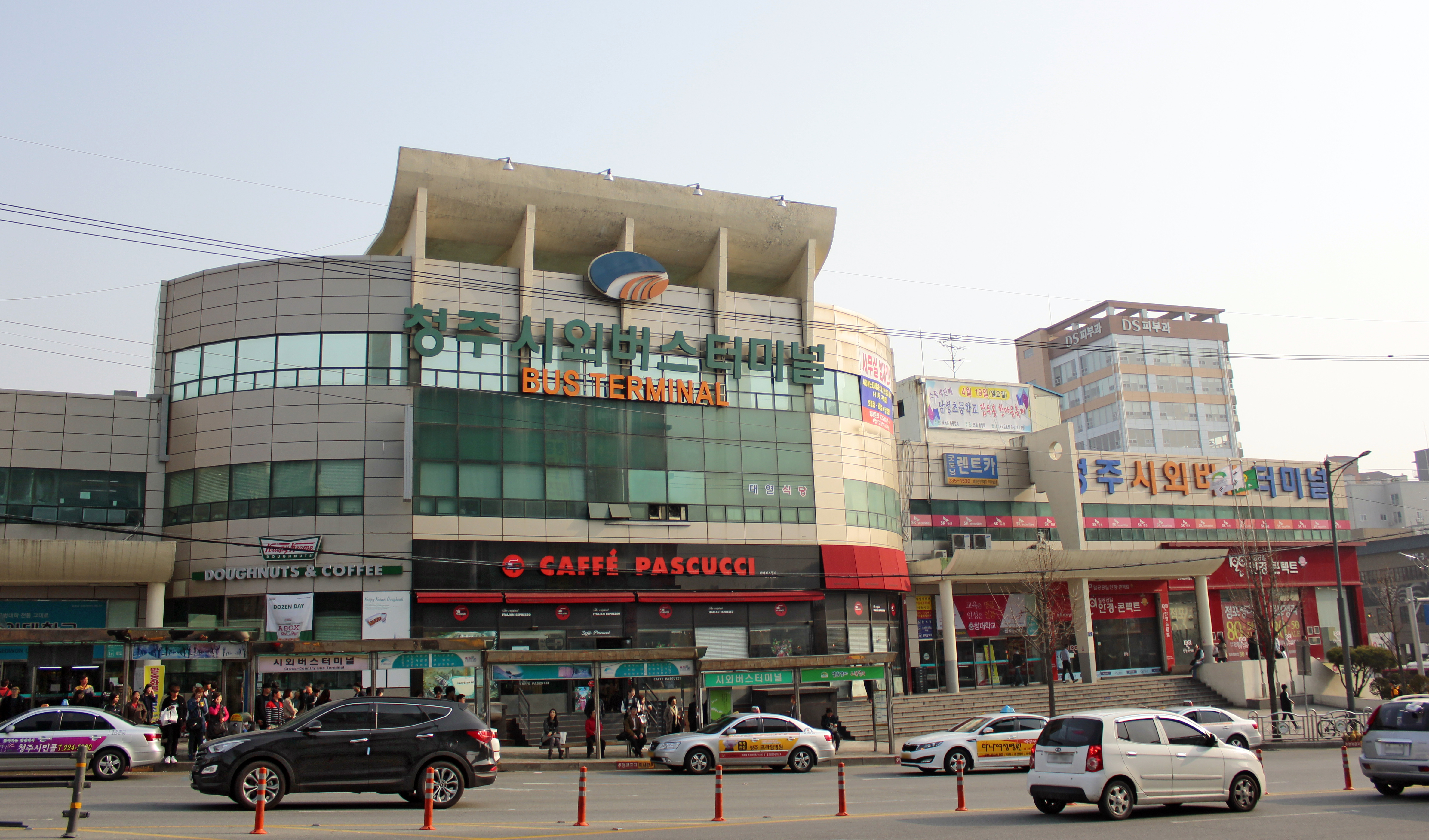 Cheongju Intercity Bus Terminal